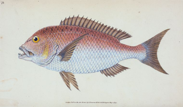 Title page of zoological and icthyological volume by English illustrator Edward Donovan. Courtesy of the New York Public Digital Collection.